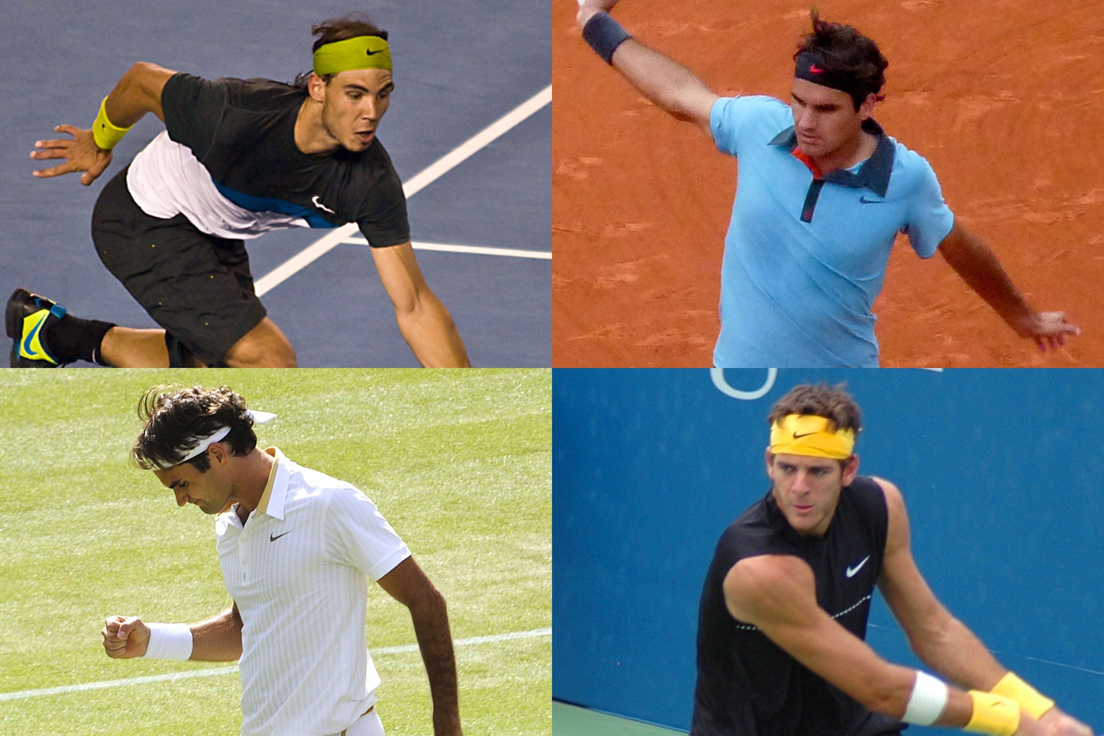 merged from four Wikipedia Commons images originally posted on Flickr